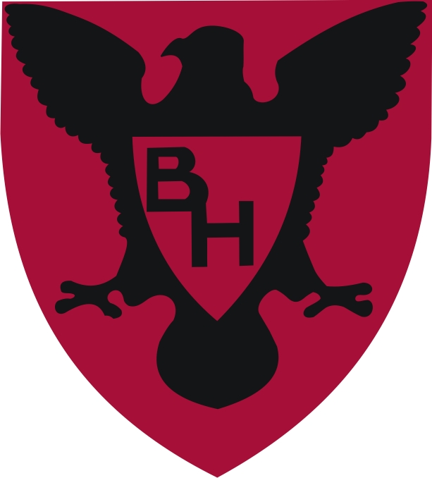 86th Training Division shoulder sleeve insignia